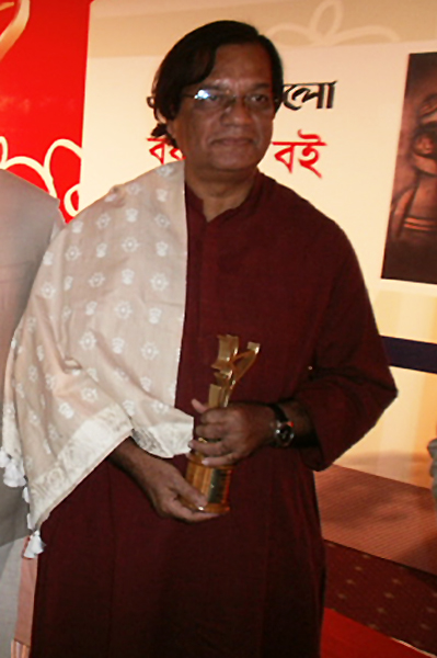 Harishankar Jaladas in Prothom Alo Best Book of the Year 2011 at Dhaka.